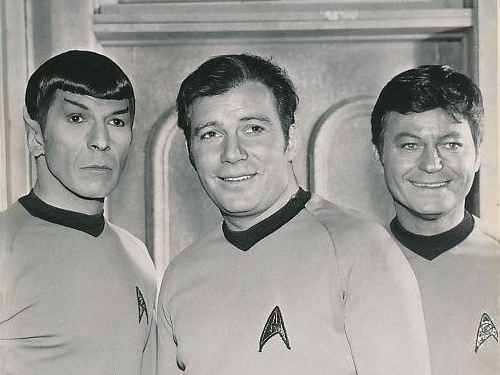 Photo of Leonard Nimoy (Spock), William Shatner (Kirk) and DeForest Kelley (McCoy) from the television program Star Trek.